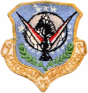 4137th Strategic Wing emblem. A copy of this emblem was downloaded from for use in my book “The Genealogy of the STRATEGIC AIR COMMAND” with the webmasters’ approval.